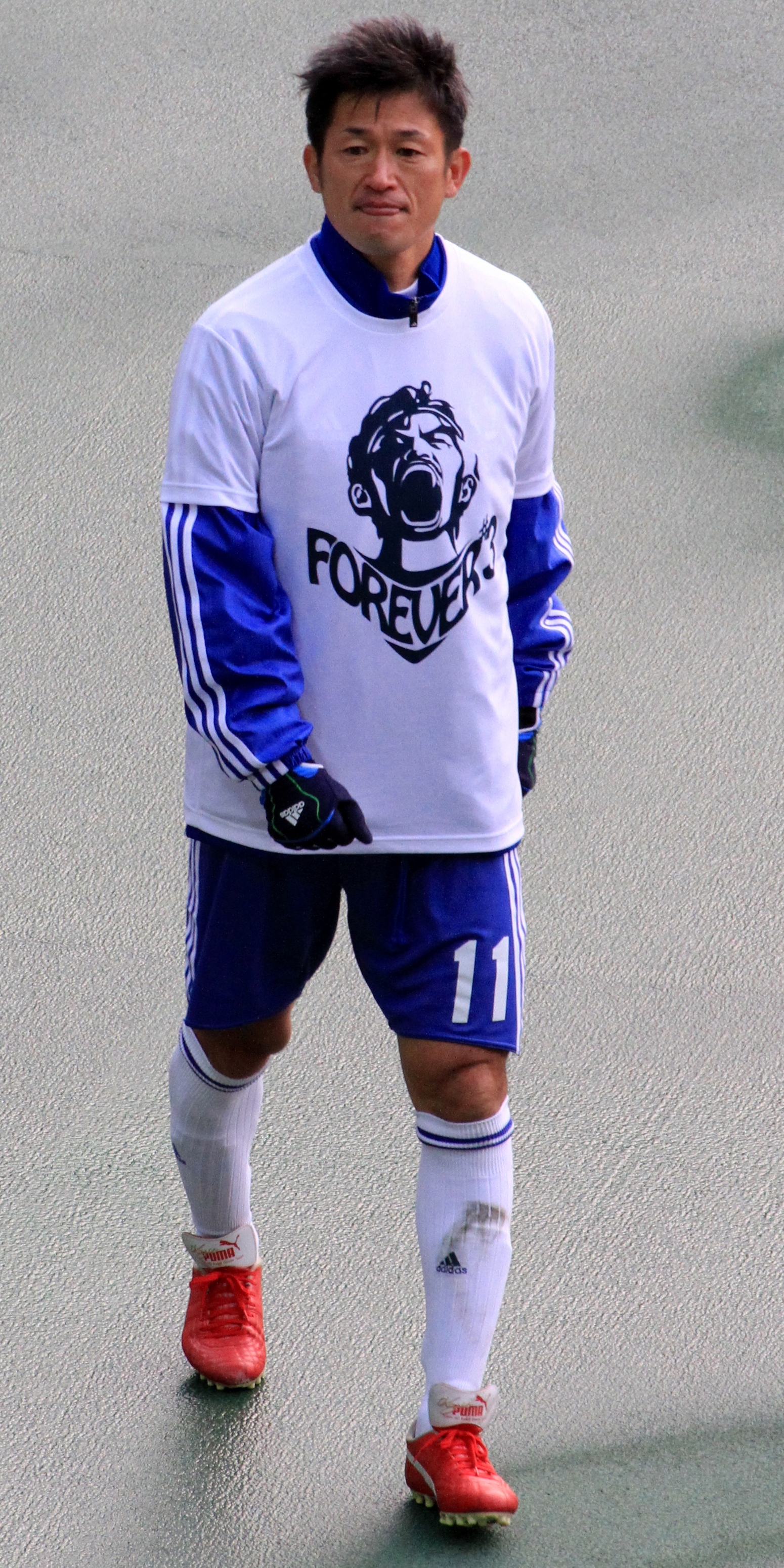 Kazuyoshi Miura playing in the tribute match for Naoki Matsuda.